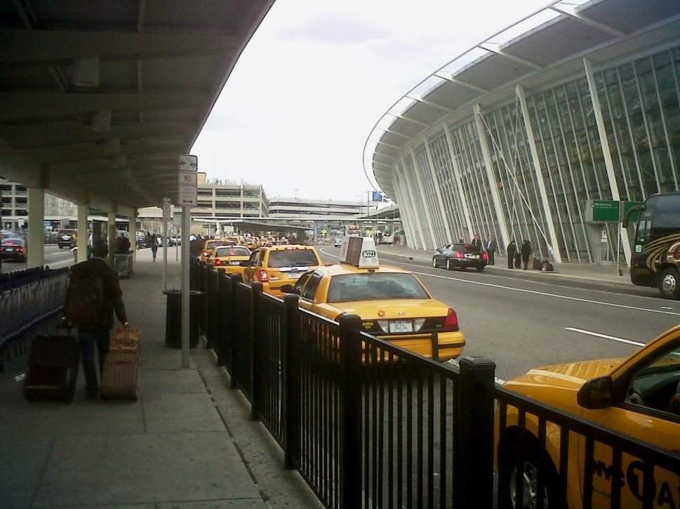 Taxis at JFK airport.